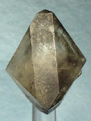 Blödite Locality: Soda Lake, Carrizo Plain, San Luis Obispo County, California, USA (Locality at ) Size: 2.9 x 2.2 x 1.4 cm. Blodite is a rare hydrated sulfate found in oceanic and lacustrine salt deposits and in nitrate deposits in arid regions. This is a superb toenail example of the rare species. This pristine, doubly terminated, dark gray, floater crystal is lustrous, transparent to translucent and has very sharp faces and edges. The chisel-like terminations are fascinating. Excellent material from the famous Soda Lake of California and the Dick Jones Collection.